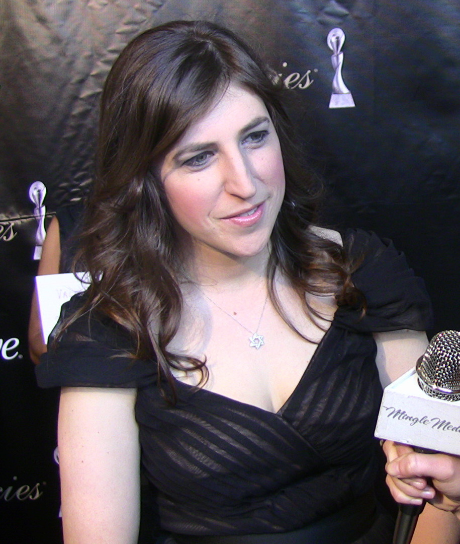 Actress Mayim Bialik at the 36th Annual Gracie Awards Gala